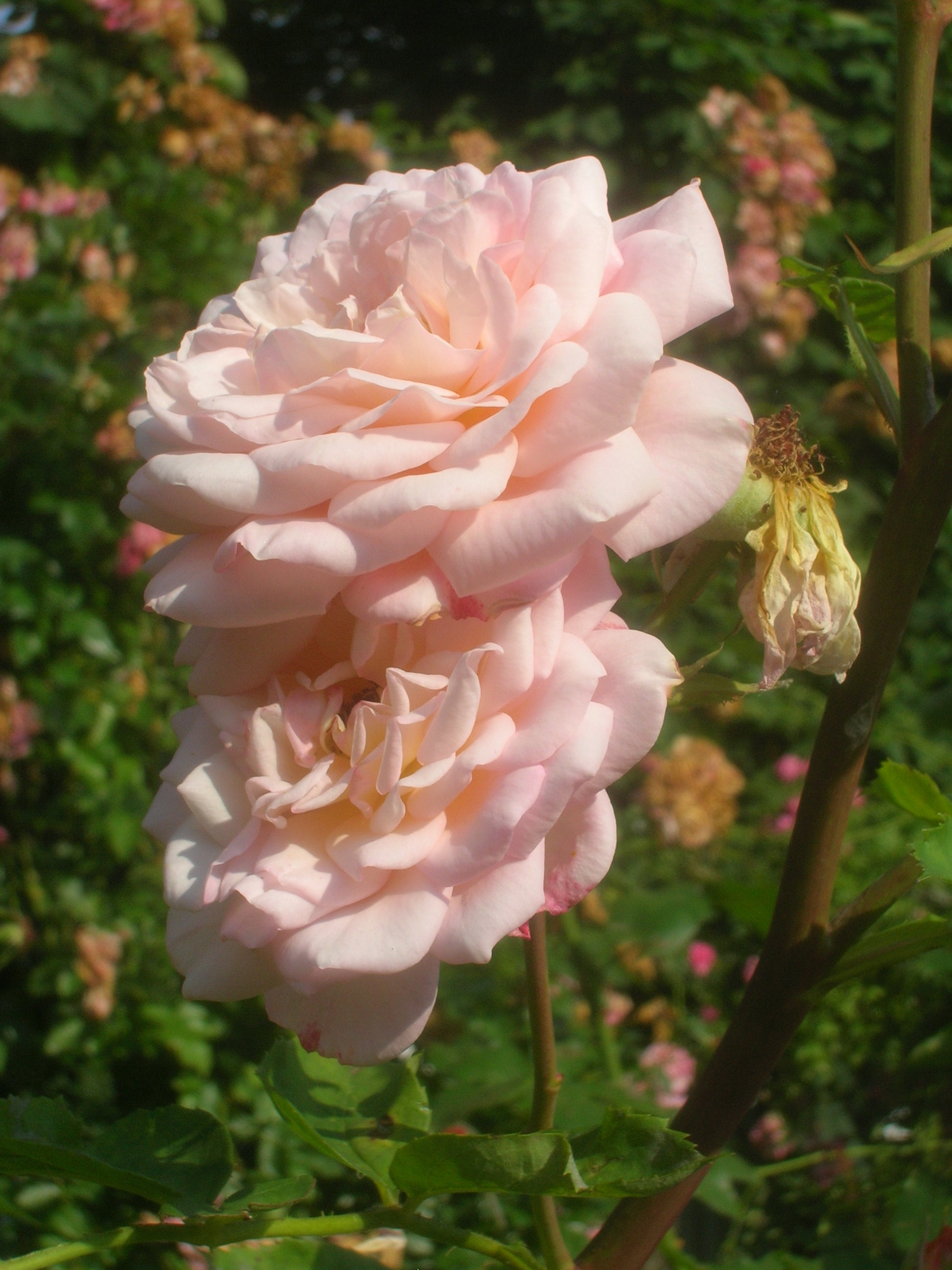 Rosa 'Abraham Darby' in the Volksgarten in Vienna. Identified by sign (Abraham Darby, Eng. 1985)